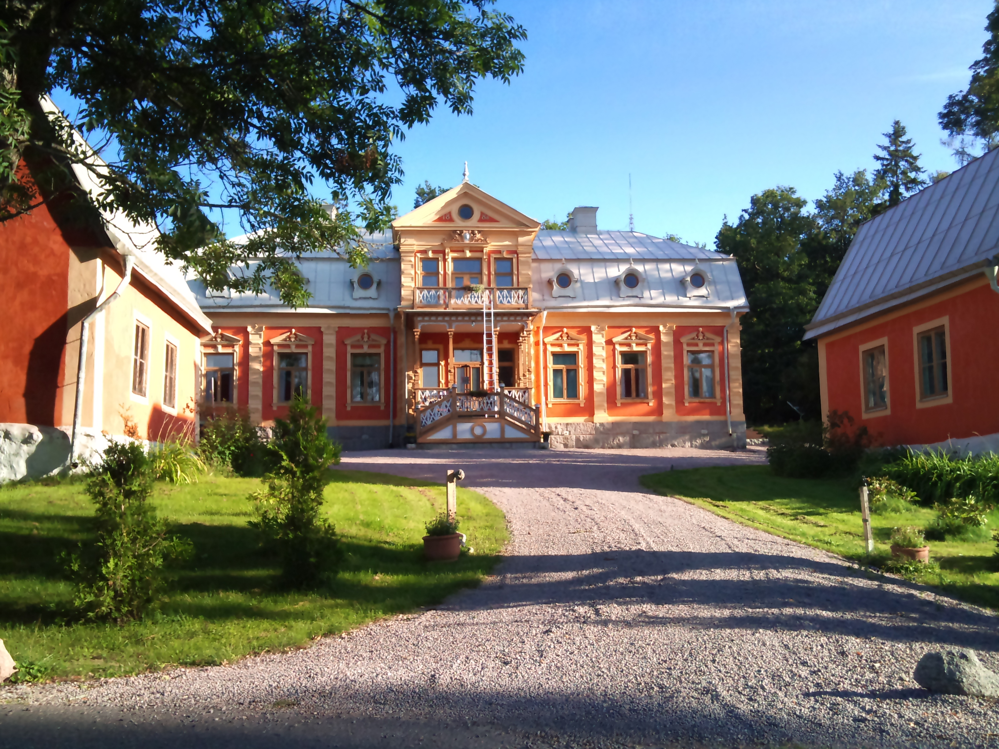 Halmbyboda mansion, Funbo, Uppsala